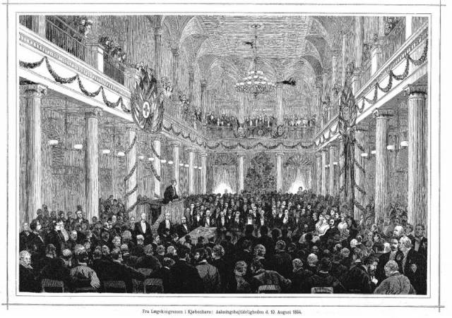 The opening ceremony of the 8th International Medical Congress in Copenhagen on 10 August 1884. The congress lasted until 16 August.